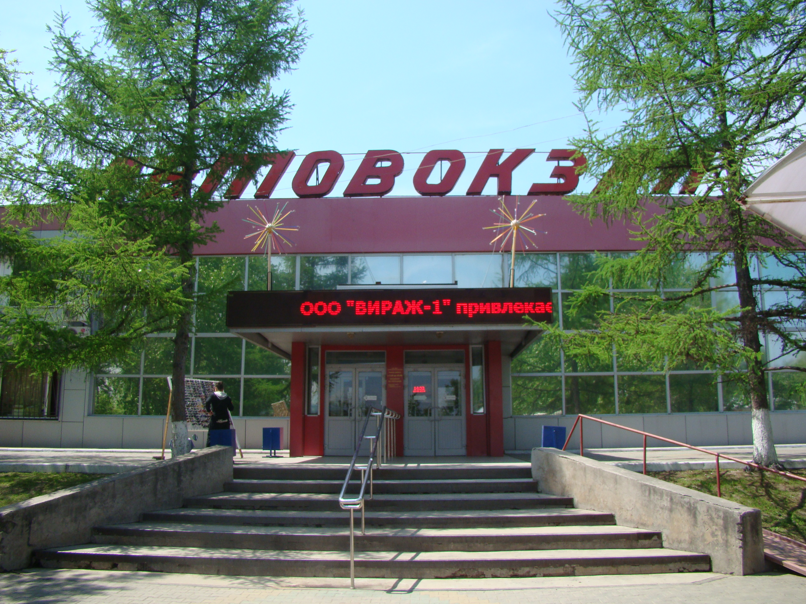 Russia. Khabarovsk. Bus station 2013